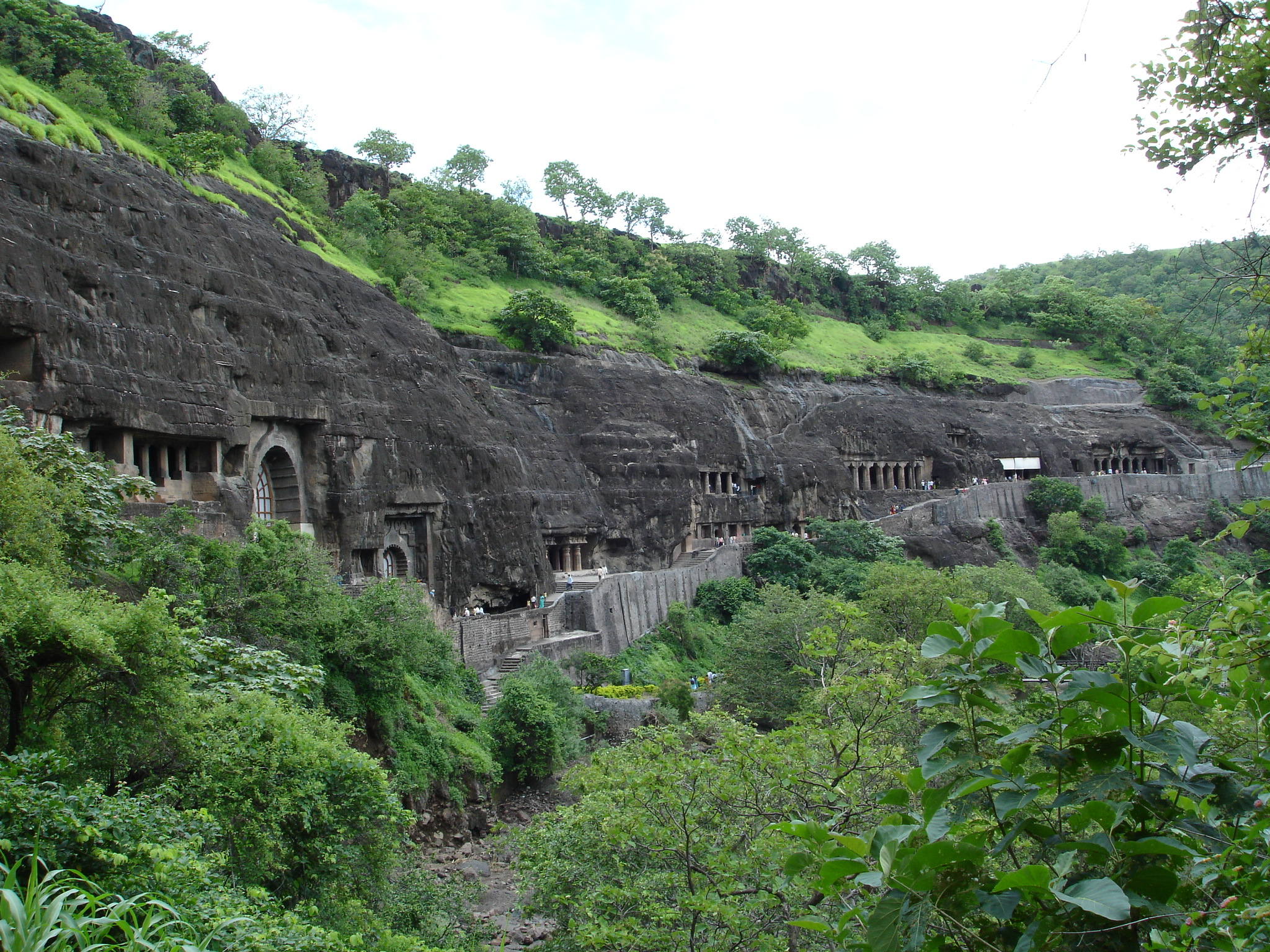 thumb|200px|right|Ajanta Caves - view from far cave.